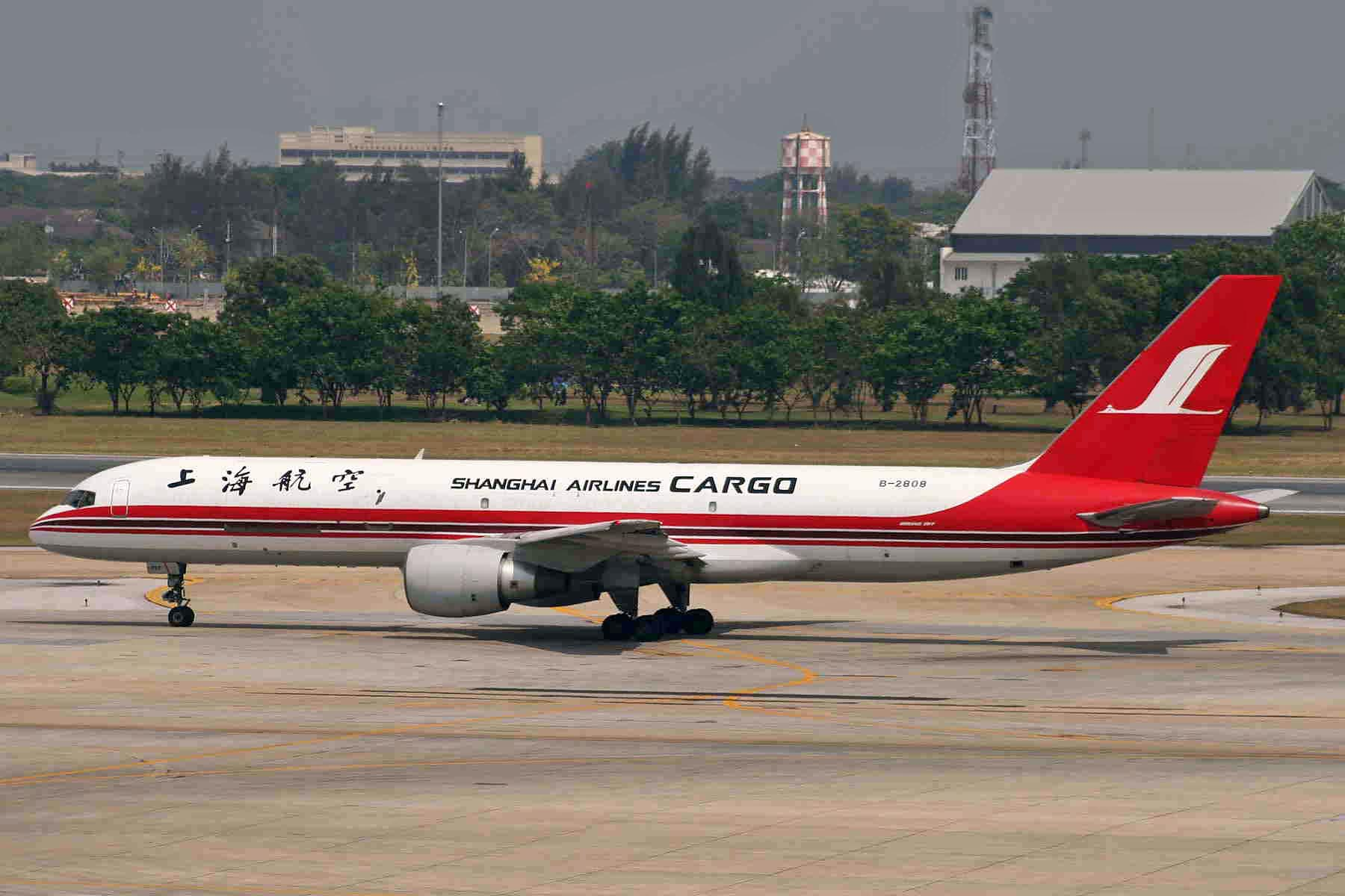 Shanghai Airlines' first 757, converted to freighter in January 2006.